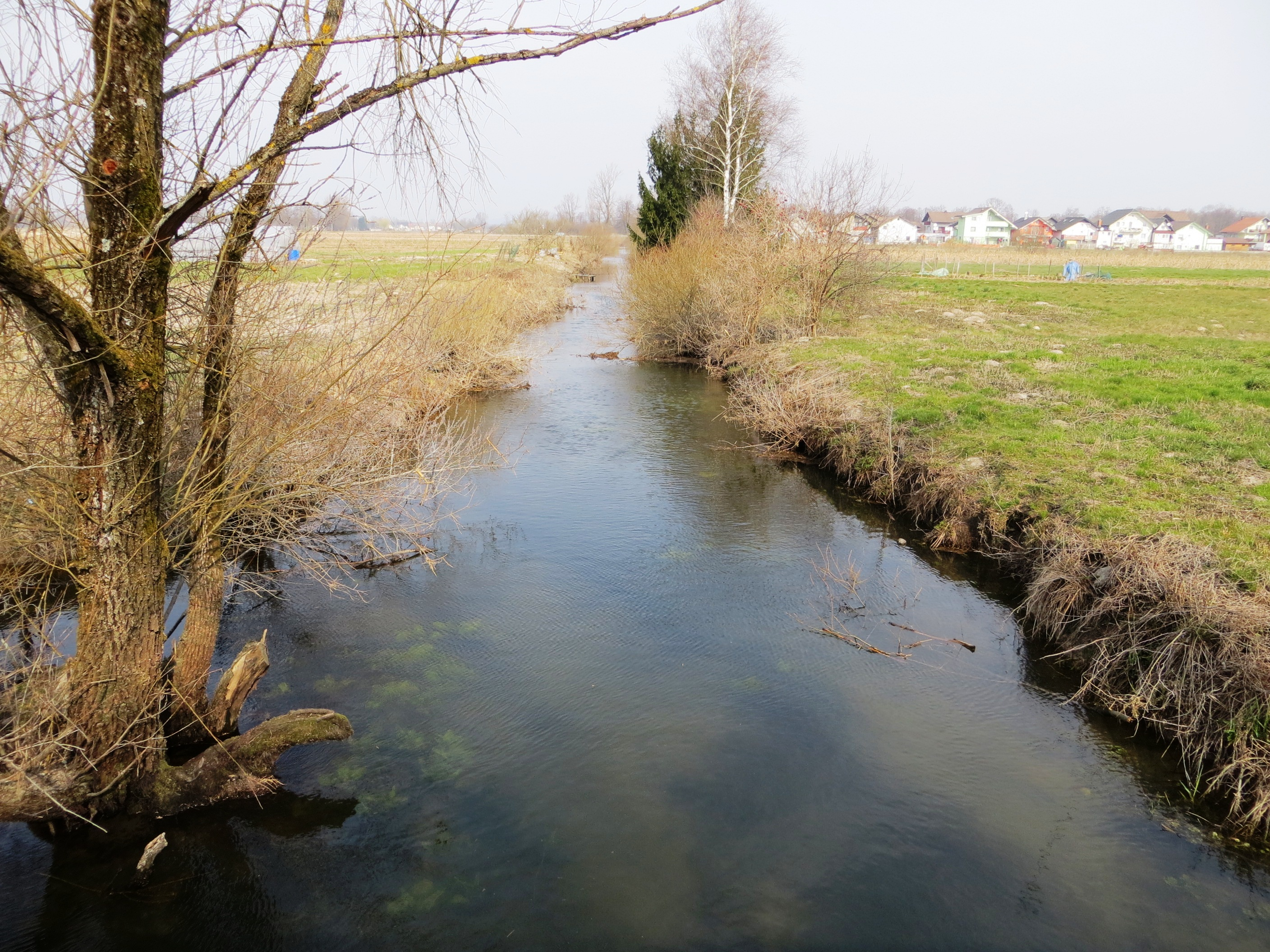 Farjevec Creek in Črna Vas, Municipality of Ljubljana, Slovenia. Črna Vas lies left of the creek, and right of the creek is the Ljubljana hamlet of Kožuh.